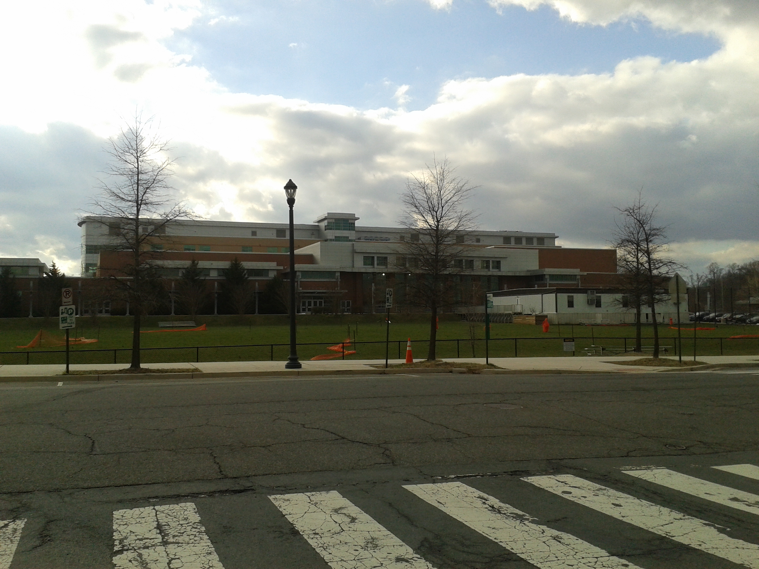 Washington-Lee High School, Arlington, Virginia, viewed from across Quincy Street